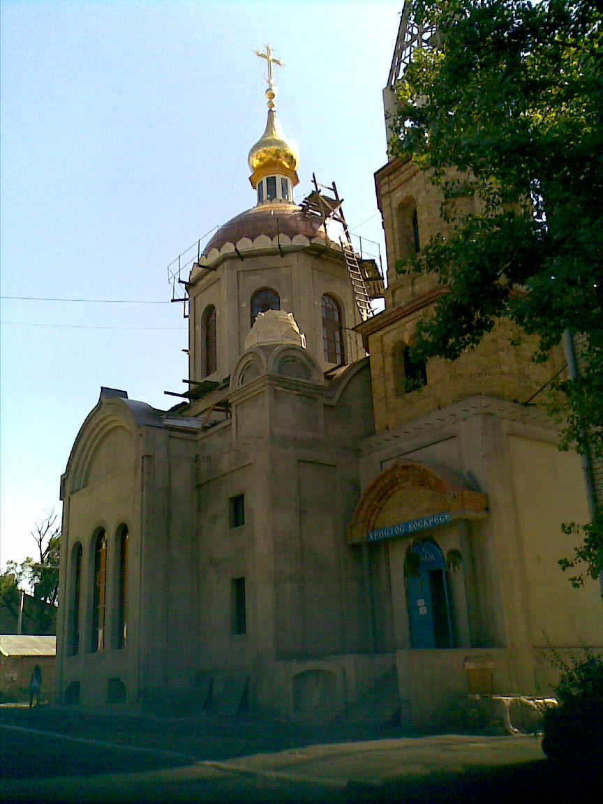 kherson-port church